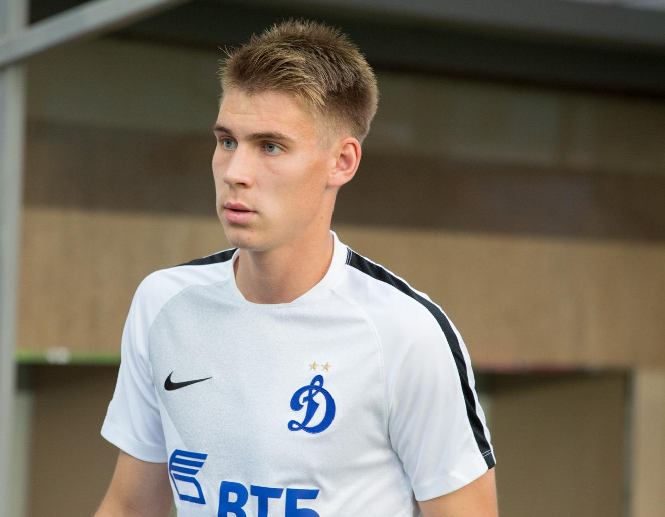 Maksim Kuzmin playing for FC Dynamo Moscow against FC Spartak-2 Moscow.